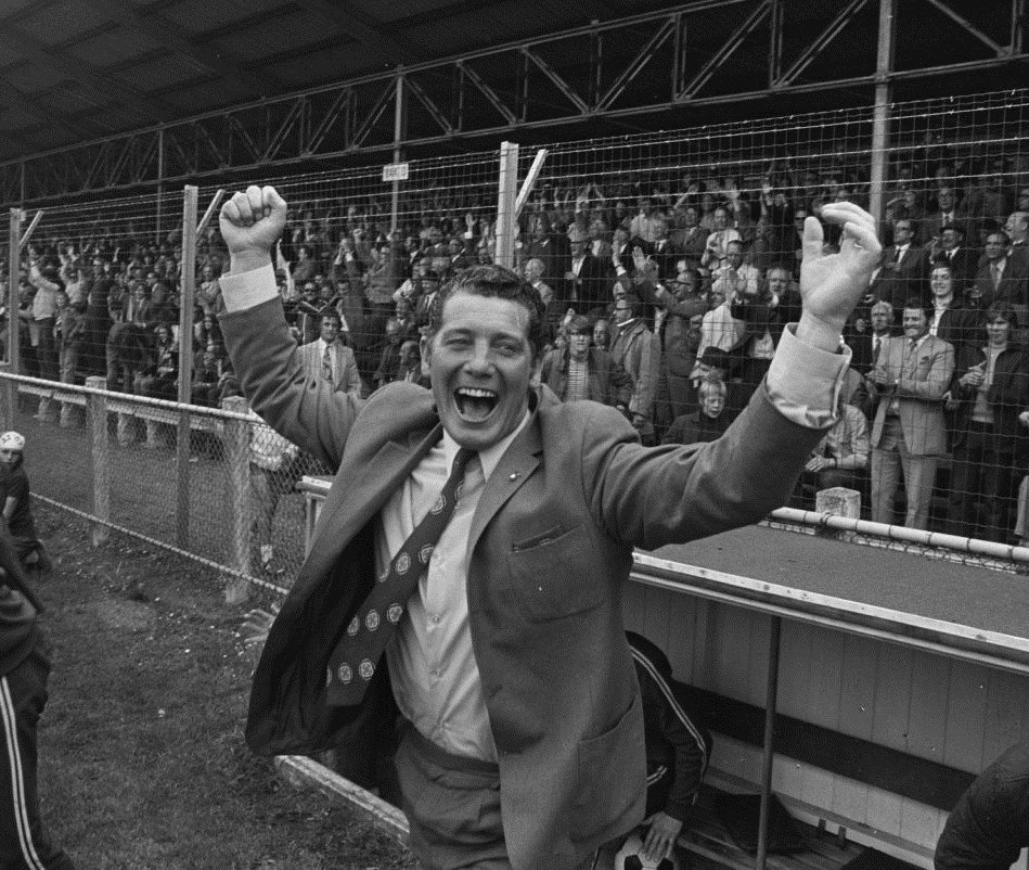 Cor van der Hart